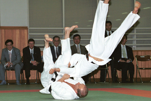 TOKYO. President Putin on a tatami at the Kodokan Martial Arts Palace.